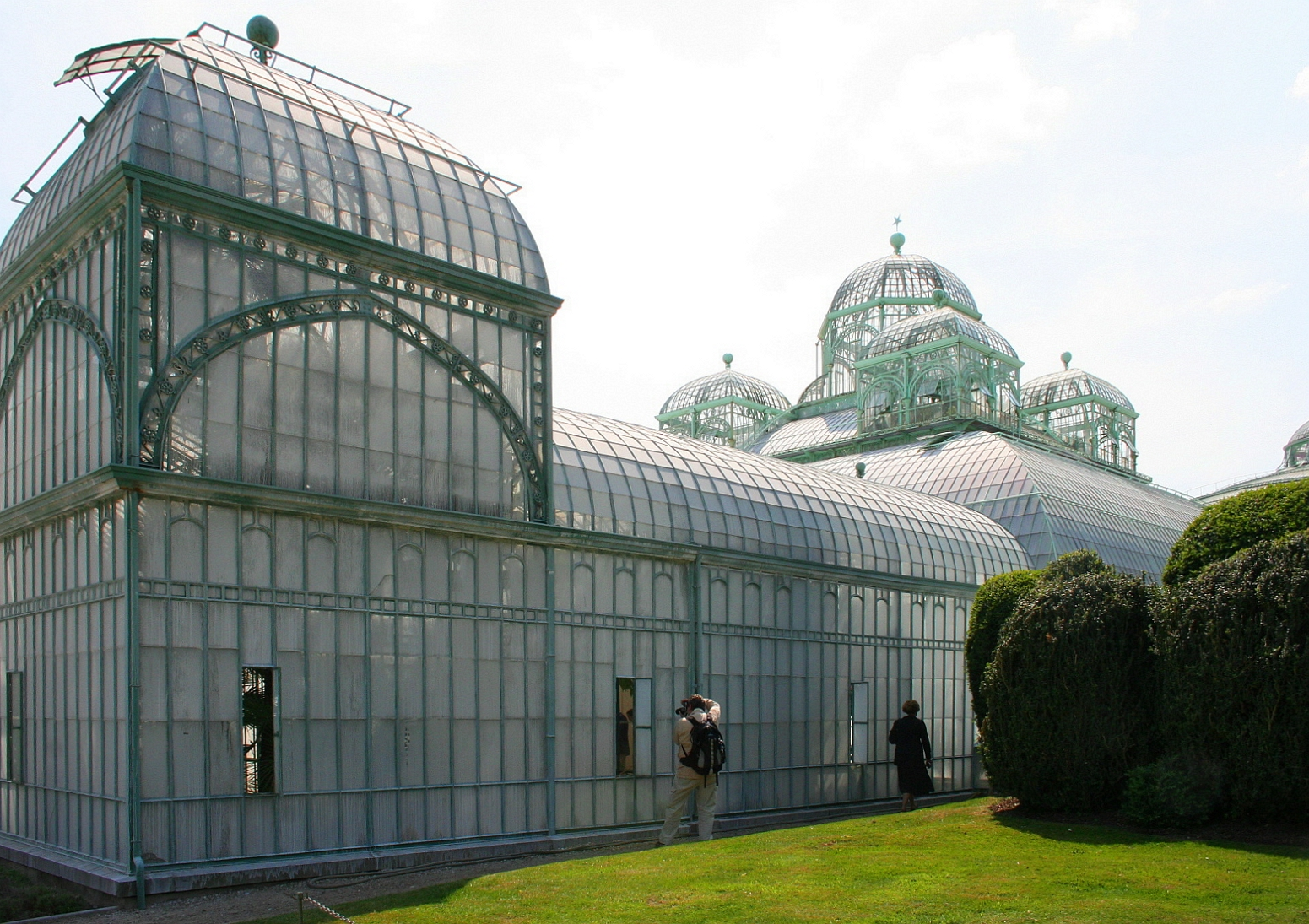 Laken (Belgium), the Royal Greenhouses of Balat (1874-1890).